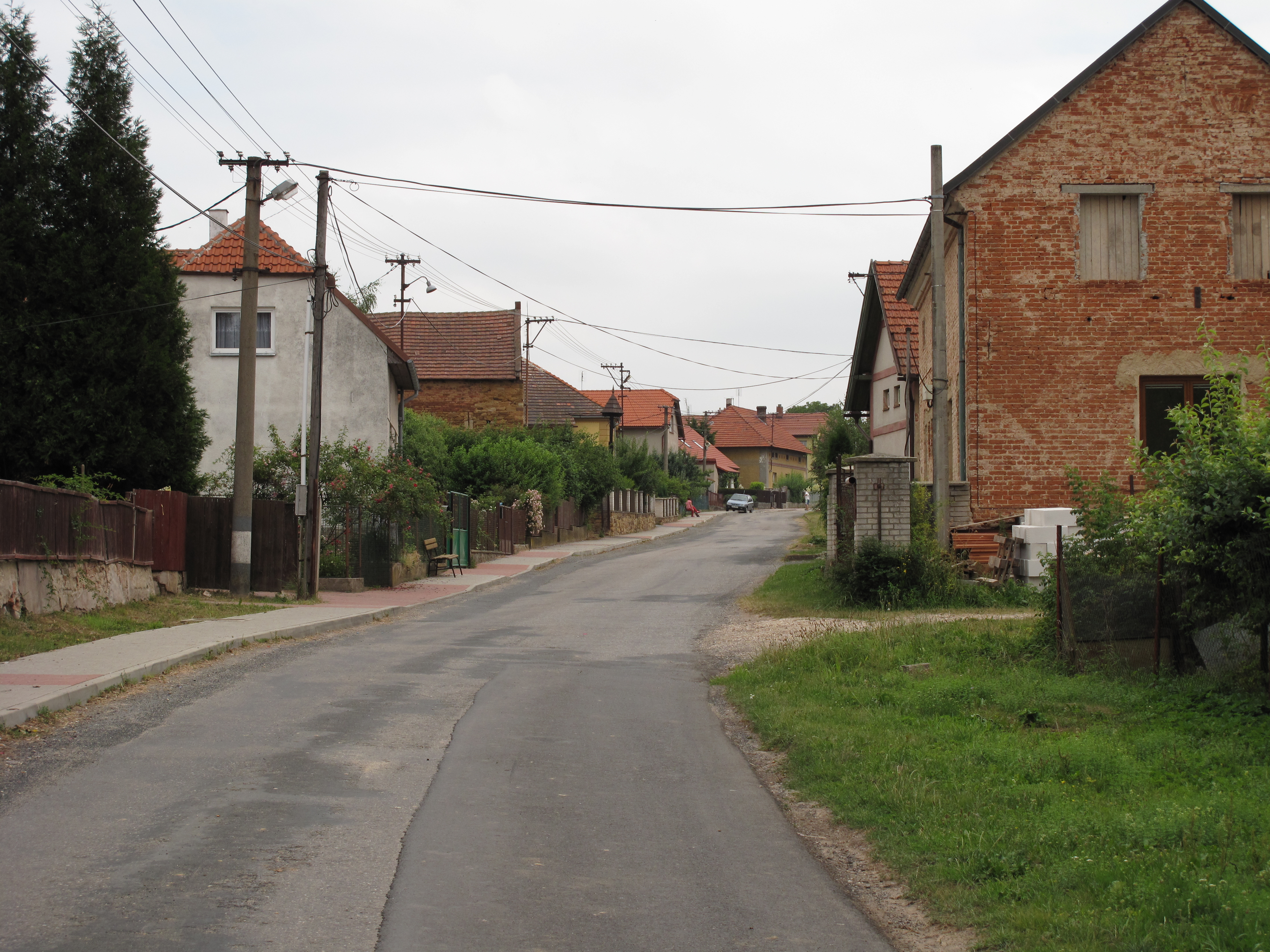 This photograph was taken within the scope of the second year of the 'Czech Municipalities Photographs' grant.